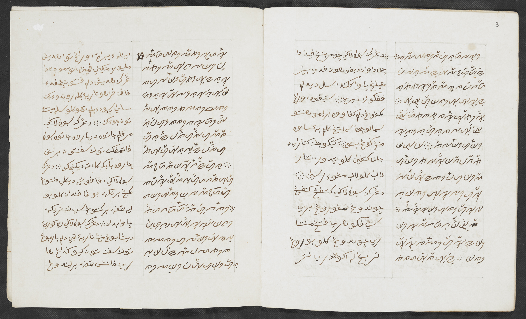 MSS Malay A.4, British Library collection. Inscribed on the title page: Inilah surat pantun cara Lampung, dialih pada basa Melayu, sama hartinya pantun Lampung dengan pantun Melayu itu, supaya tuan2 maklum, adanya. A volume of Lampung quatrains with Malay versions, apparently made for a European (tuan). The text is in two parallel column of ruled pencil lines, withe the Lampung text in Lampung script, and the Malay in Jawi script. The text begins, no wayakni sai tuha tegosni basa Lampung ka dalam di sai ngura, which is translated in Malay as, inilah ibarat orang tua hadis Melayu zaman kini pemainan anak muda. Thus, these are quatrains from old people expressing their meaning in the Lampung language among the young. The collection comprises 73 traditional (hence sai tuha, orang tua) wayak as used by young people in courtship. The wayak is a quatrain with the rhyme a-b-a-b, each line having seven syllables. Lines 1 and 2 fortell by rhyme and association the meaning expressed in lines 3 and 4, just as in the Malay pantun. But the Malay pantun here are not exact translations of the Lampung wayak; the third and fourth lines agree roughly with the wayak, but the first and second have rhyming words unconnected with those in the wayak. In some of the wayak the first line has only four syllables (which seems to have been a legitimate poetic device, cf. O.L. Helfrich, 'Verzameling Lampongsche teksten', VBG, vol.45, no.4, p.32, where such a line occurs in no.5).On f.11v the MS is dated 27 March 1812. It is unclear for whom the MS was written; in the third wayak the name of a Captain Ludan[?] is used as a rhyming word. There is a change of hand on f.8r. The Jawi script has some Minangkabau peculiarities and often uses sy for s. The MS was probably written at Bengkulu.